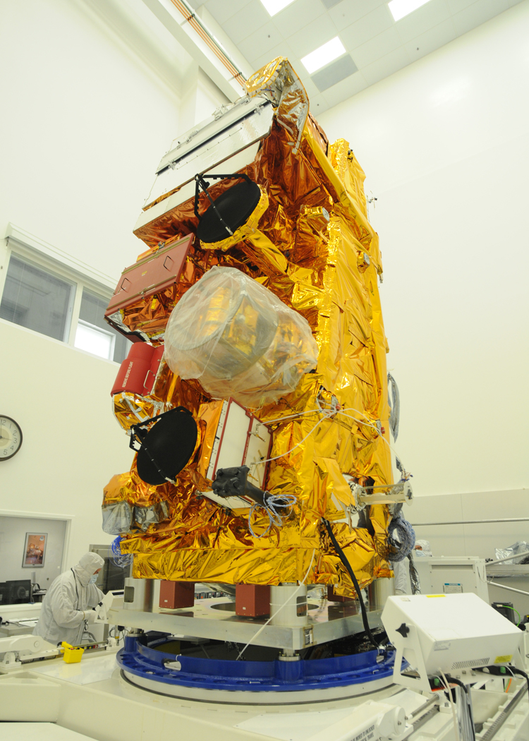 The NPP satellite vertical in the cleanroom after EMI.